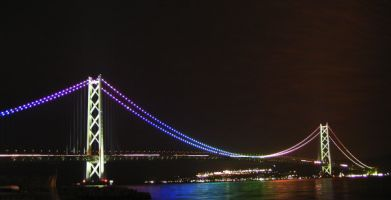 Night shot of Akashi-Kaikyo bridge Date: 2003-04-27 Place: Taken near Nishi-Maiko station. Copyright: Copyright-free Photographer: synthetik